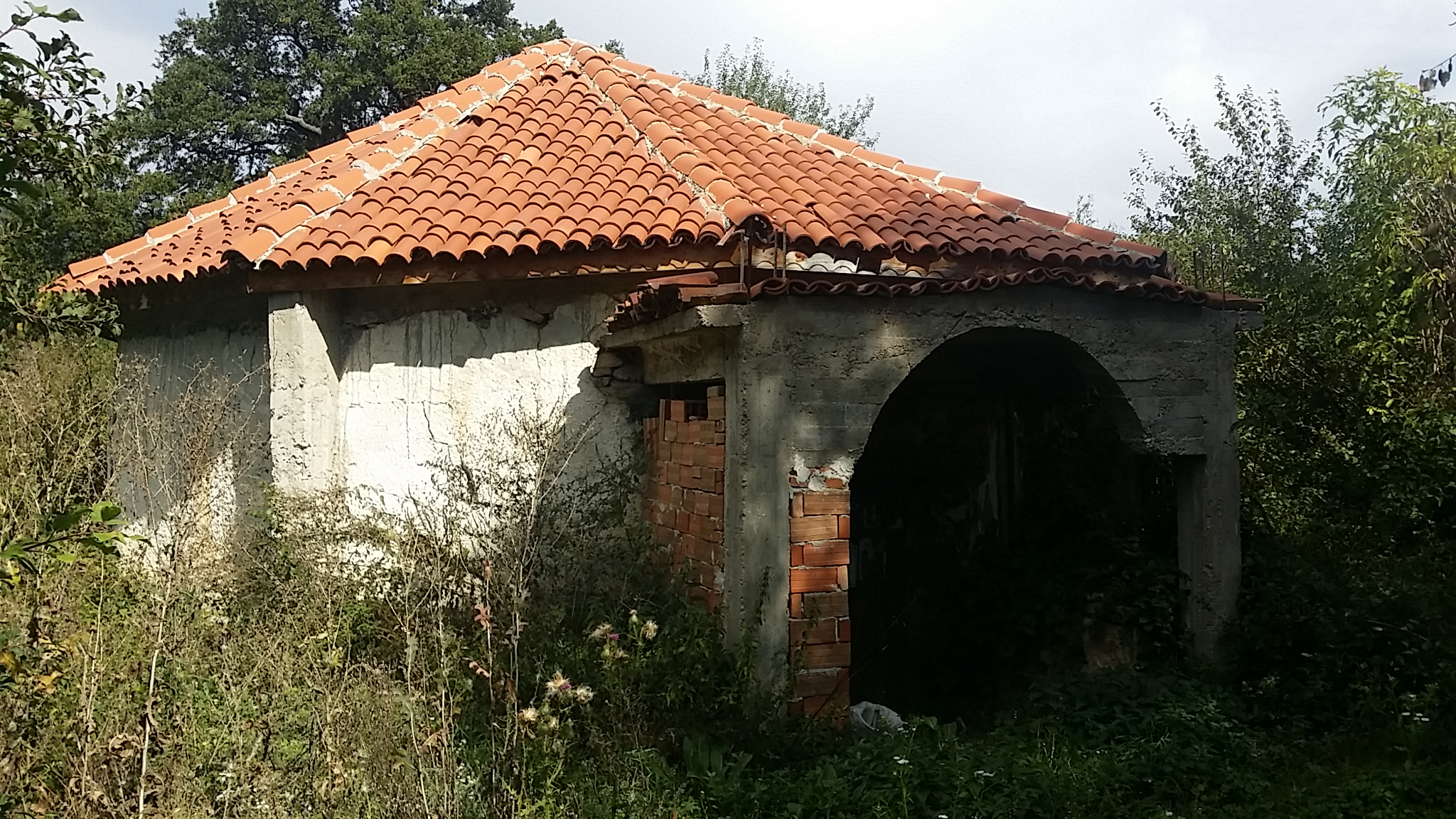 Църква "Свети Николай" - село Рани Луг (2017 година)